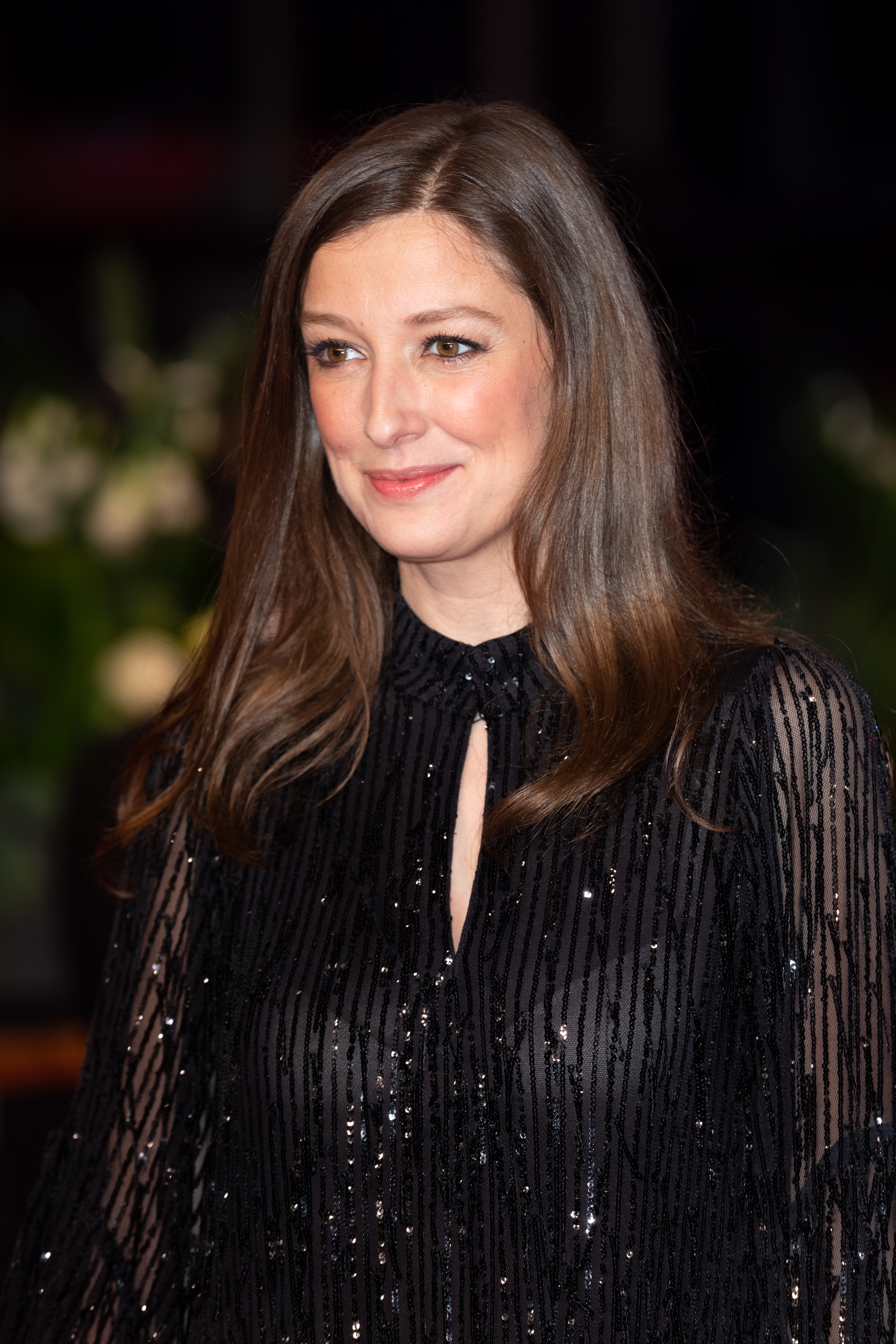 Alexandra Maria Lara at Berlinale 2020